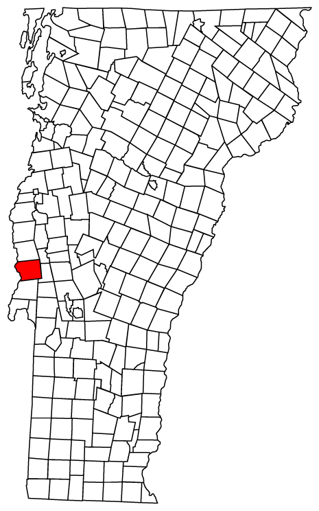 Description: Map of Vermont towns with Orwell highlighted Source: Map created by Jared C. Benedict on 26 March 2004. Copyright: © Jared C. Benedict.